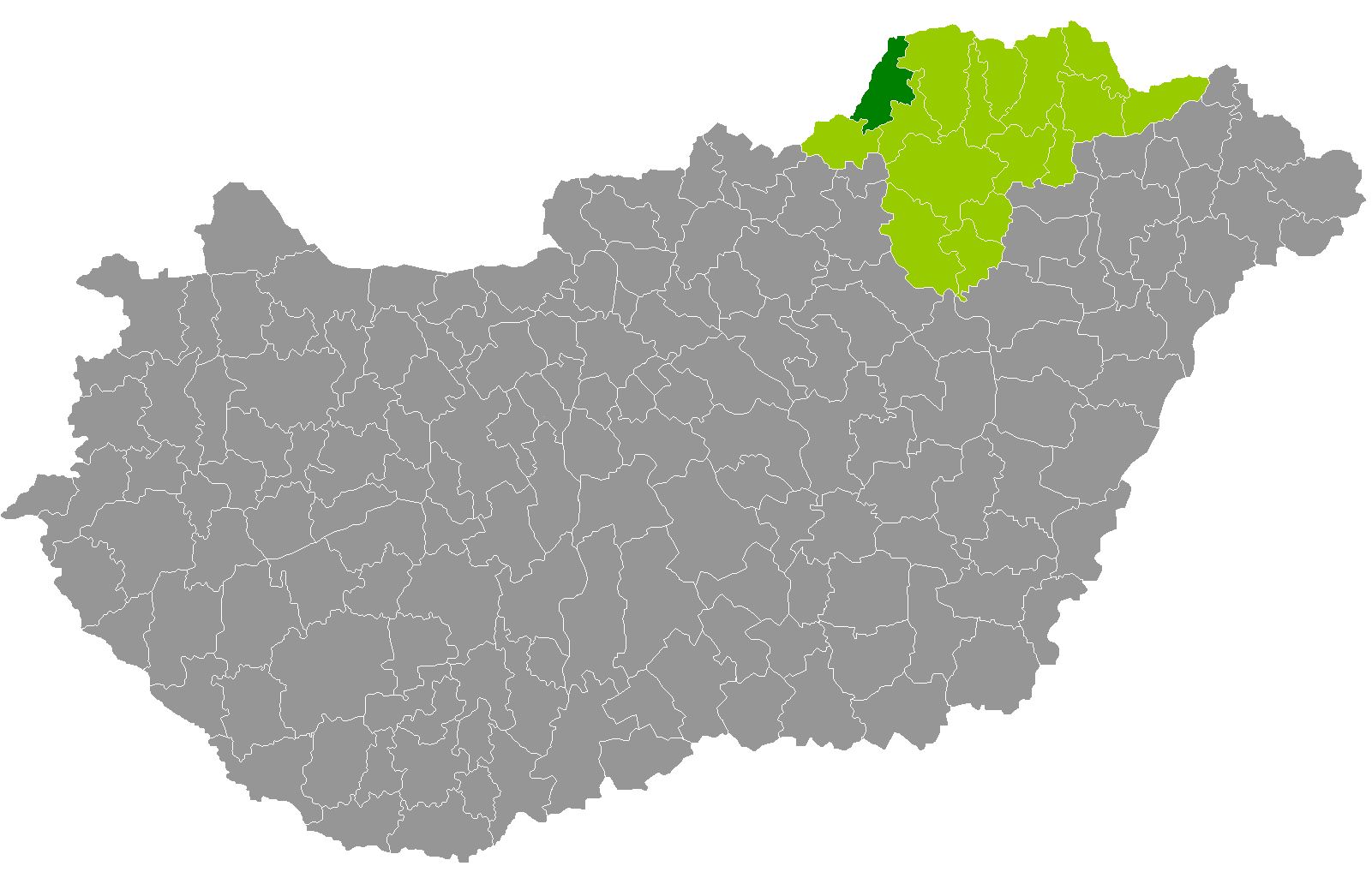 Location of Putnok District, Borsod-Abaúj-Zemplén, Hungary